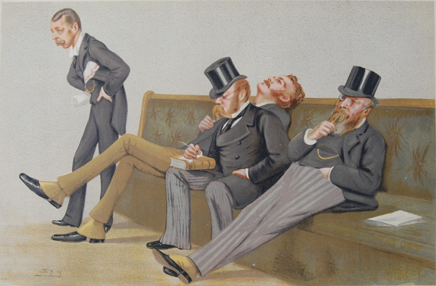 Caricature : "The Fourth Party" : Lord Randolph Churchill, Arthur Balfour, Henry Drummond-Wolff and John Eldon Gorst.